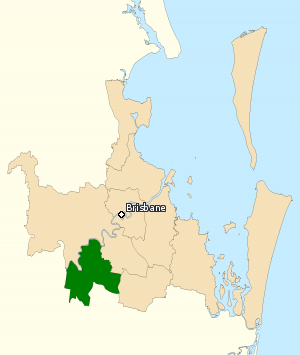 This image incorporates data that is: © Commonwealth of Australia (Australian Electoral Commission) 2009 Division of Oxley 2010